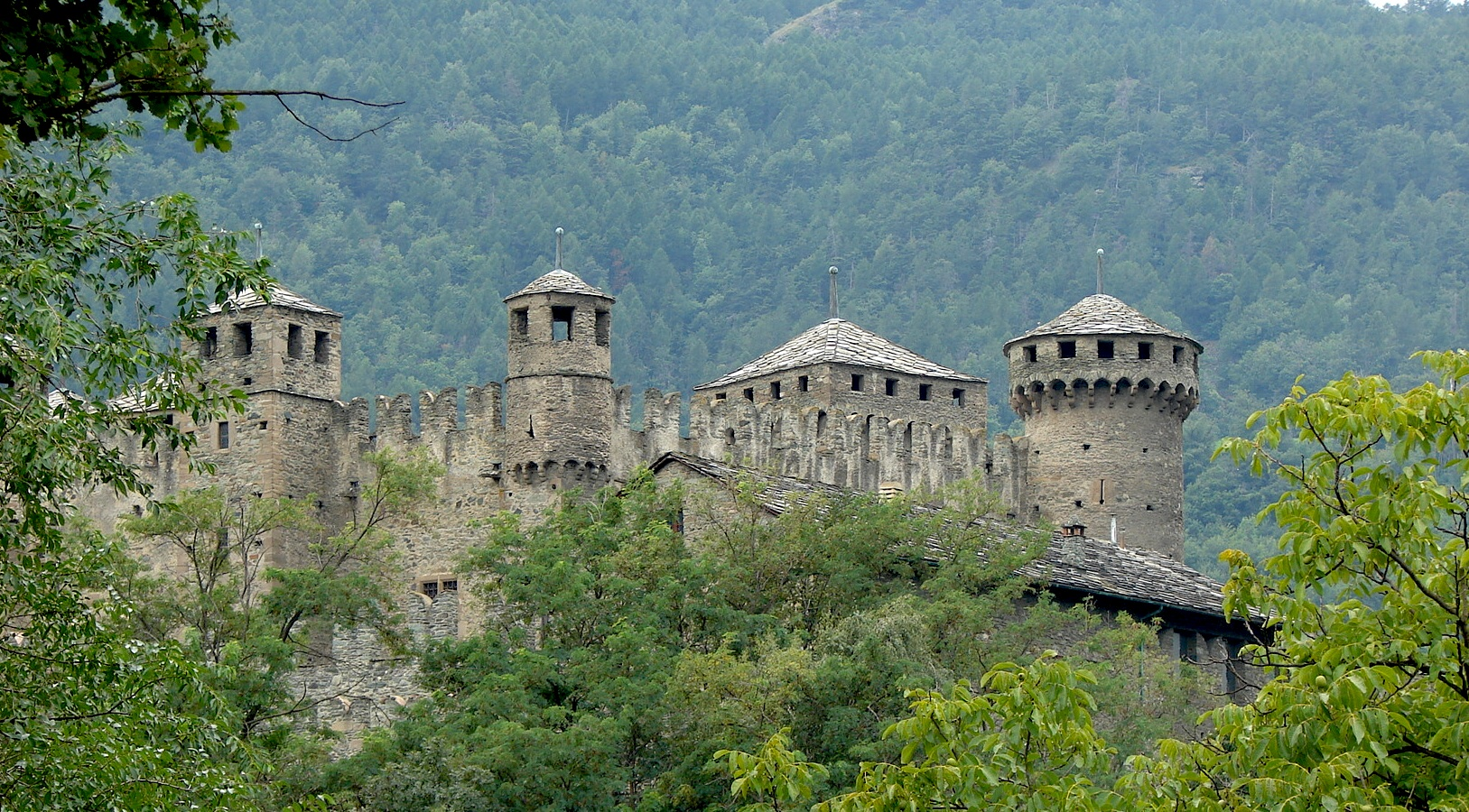 Fenis Castle - Italy - Aosta Valley Général view